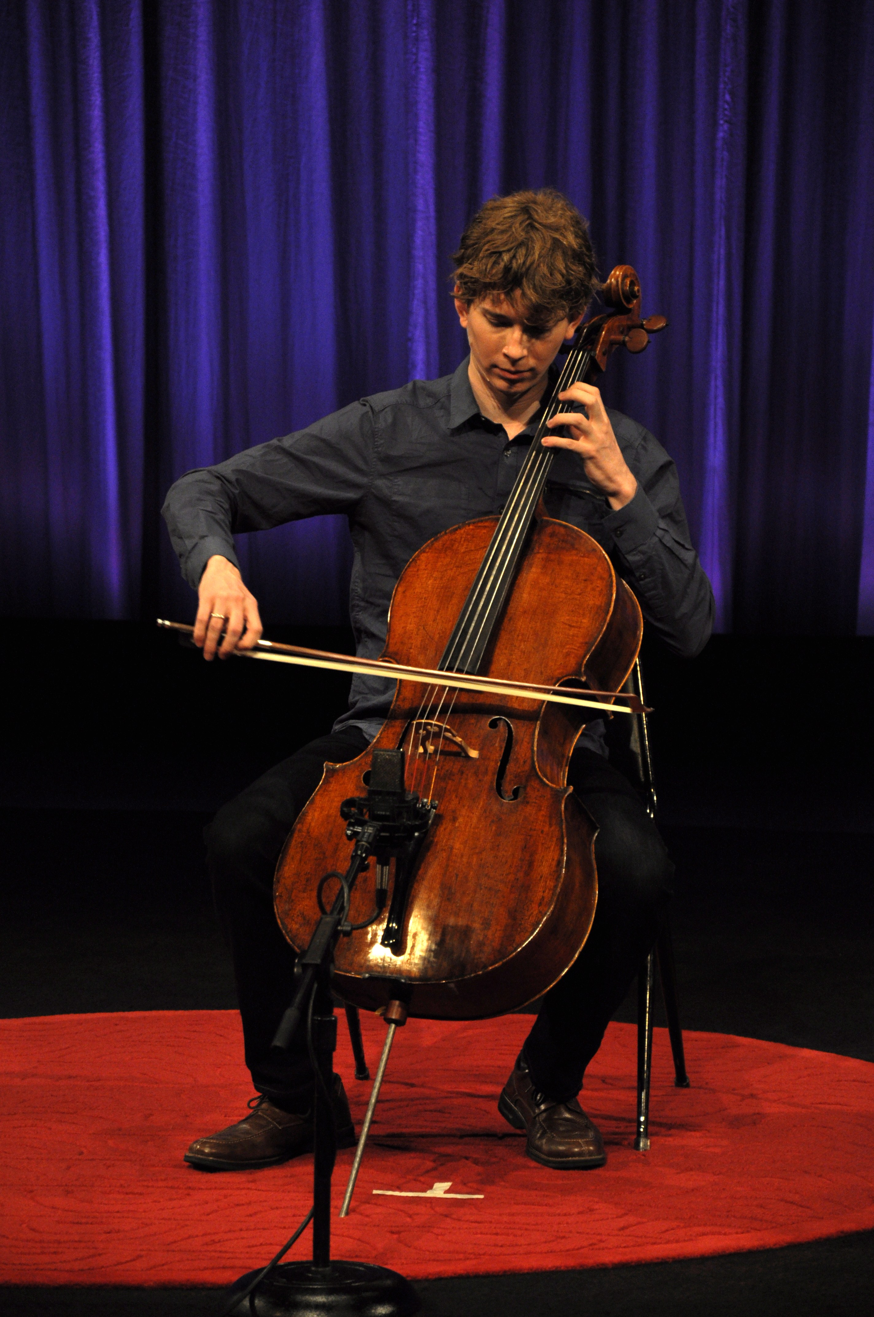 Cellist Joshua Roman performing at a TED event